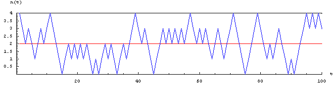 Numerical simulation of a Ehrenfest urn model with 4 balls. All the balls are initially in one urn, say A. The figure shows the number of balls in urn A as a function of discrete time . The first 100 steps are shown ; numerous recurrence does occur.